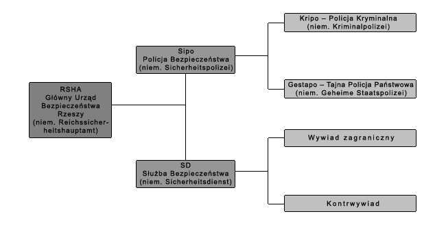 RSHA and it's sub-units